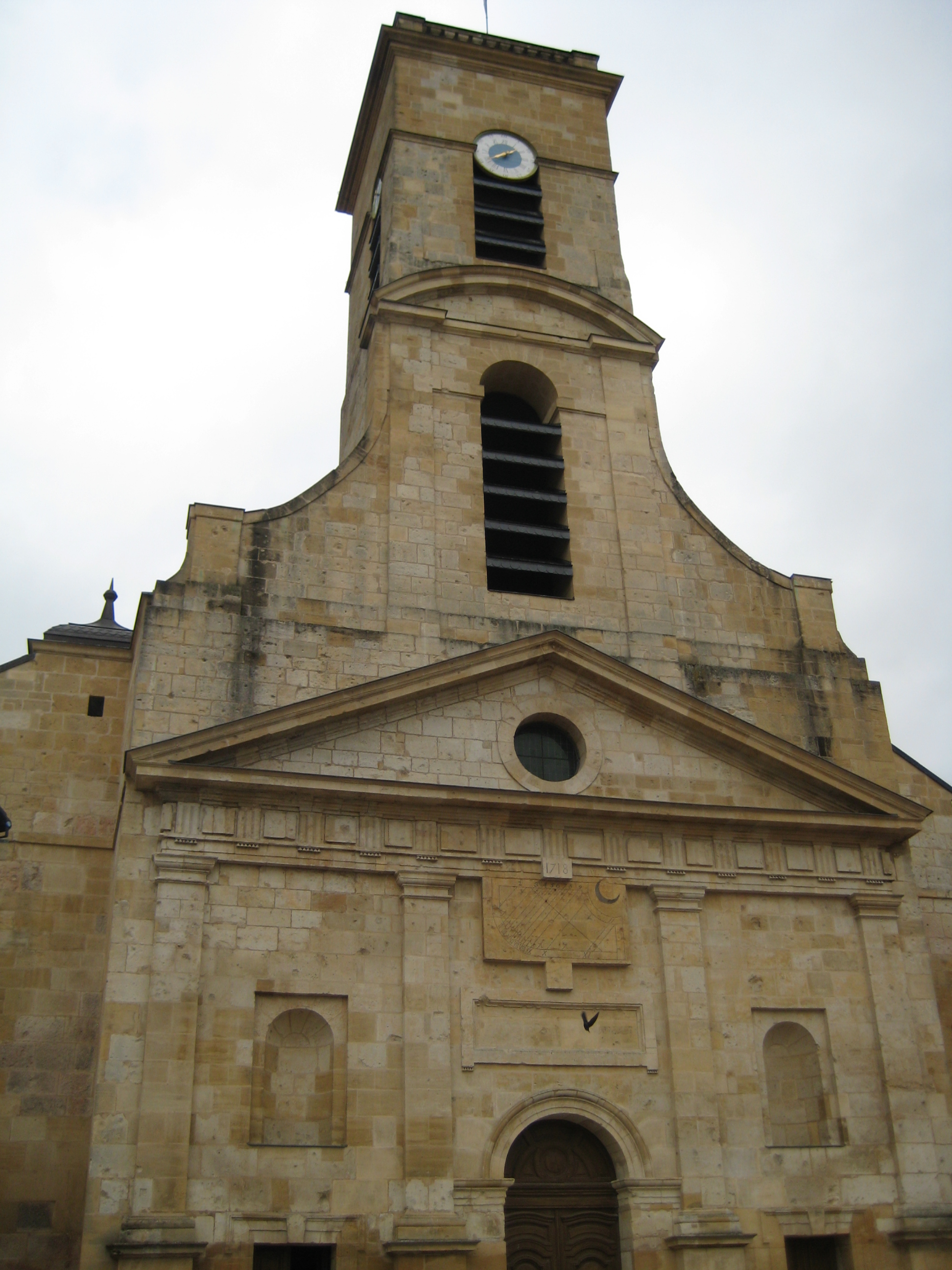 Description Église Saint Dagobert Date16 May 2009Sourcemon appareil photoAuthorAimelaime Église Saint Dagobert